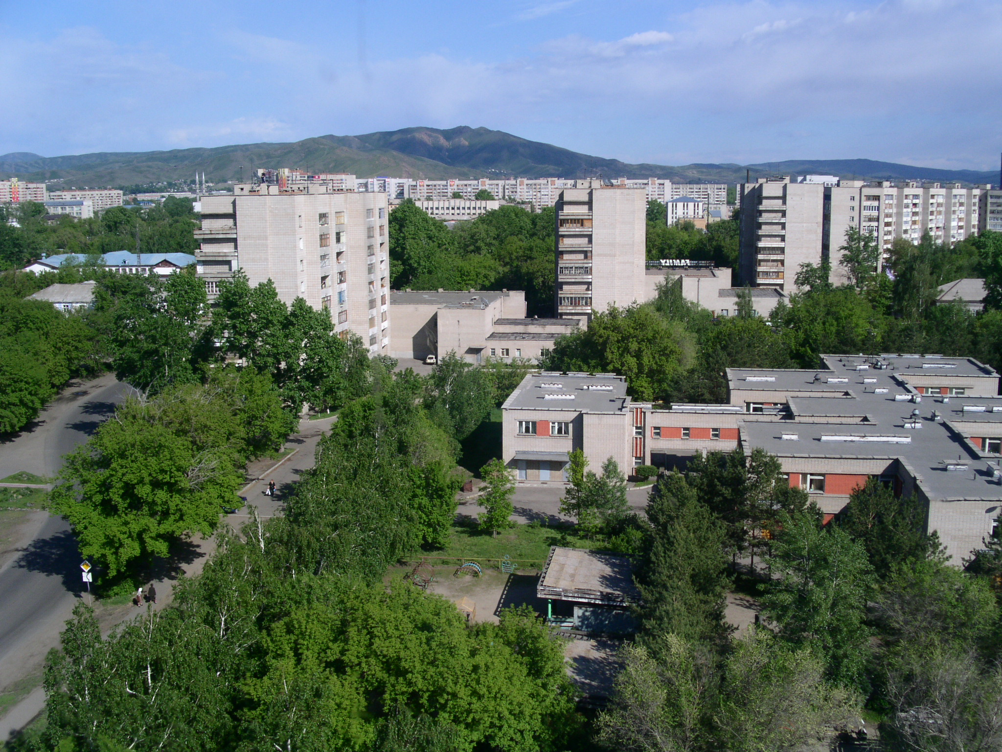 Skyline of Oskemen